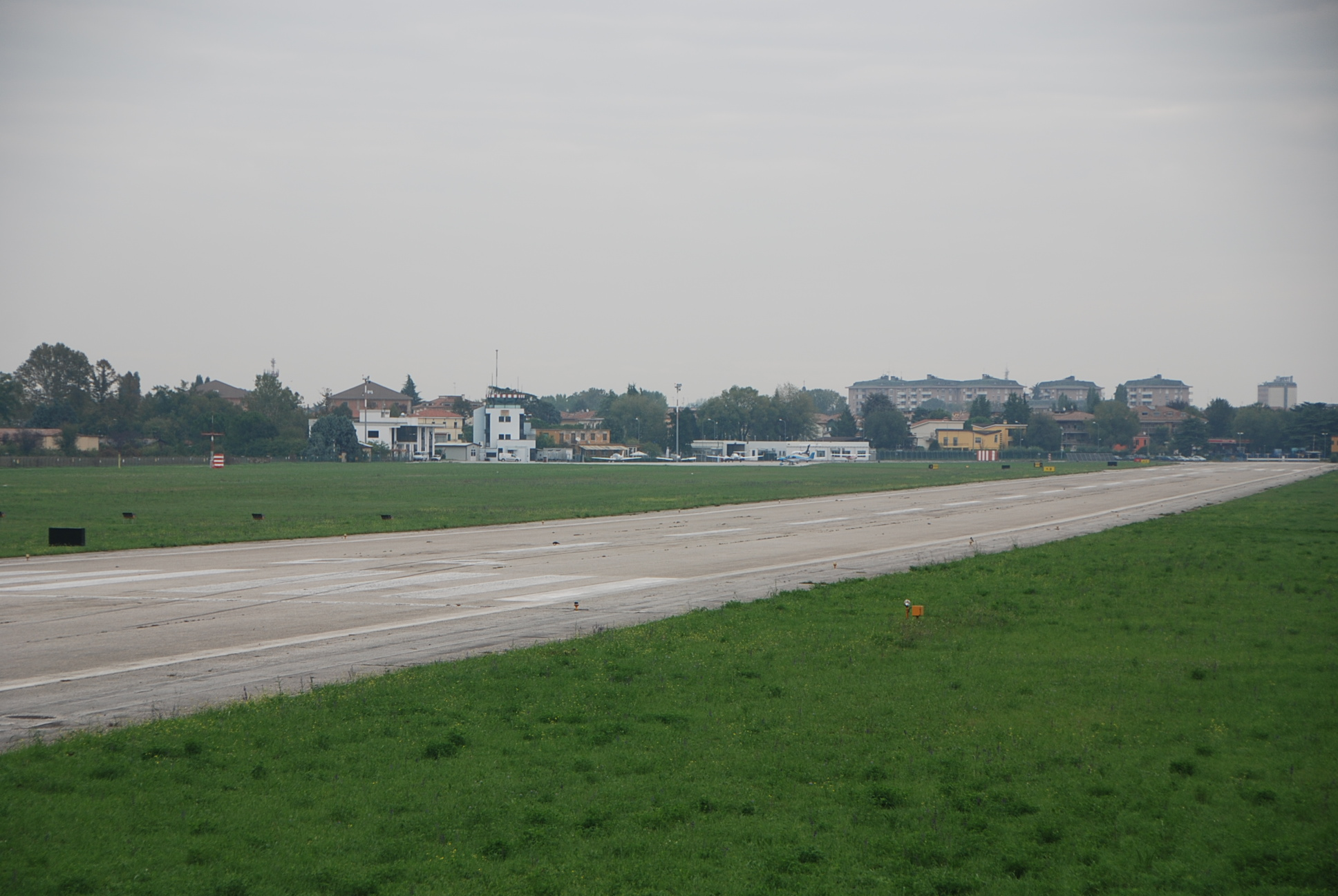 Padua airport terminal